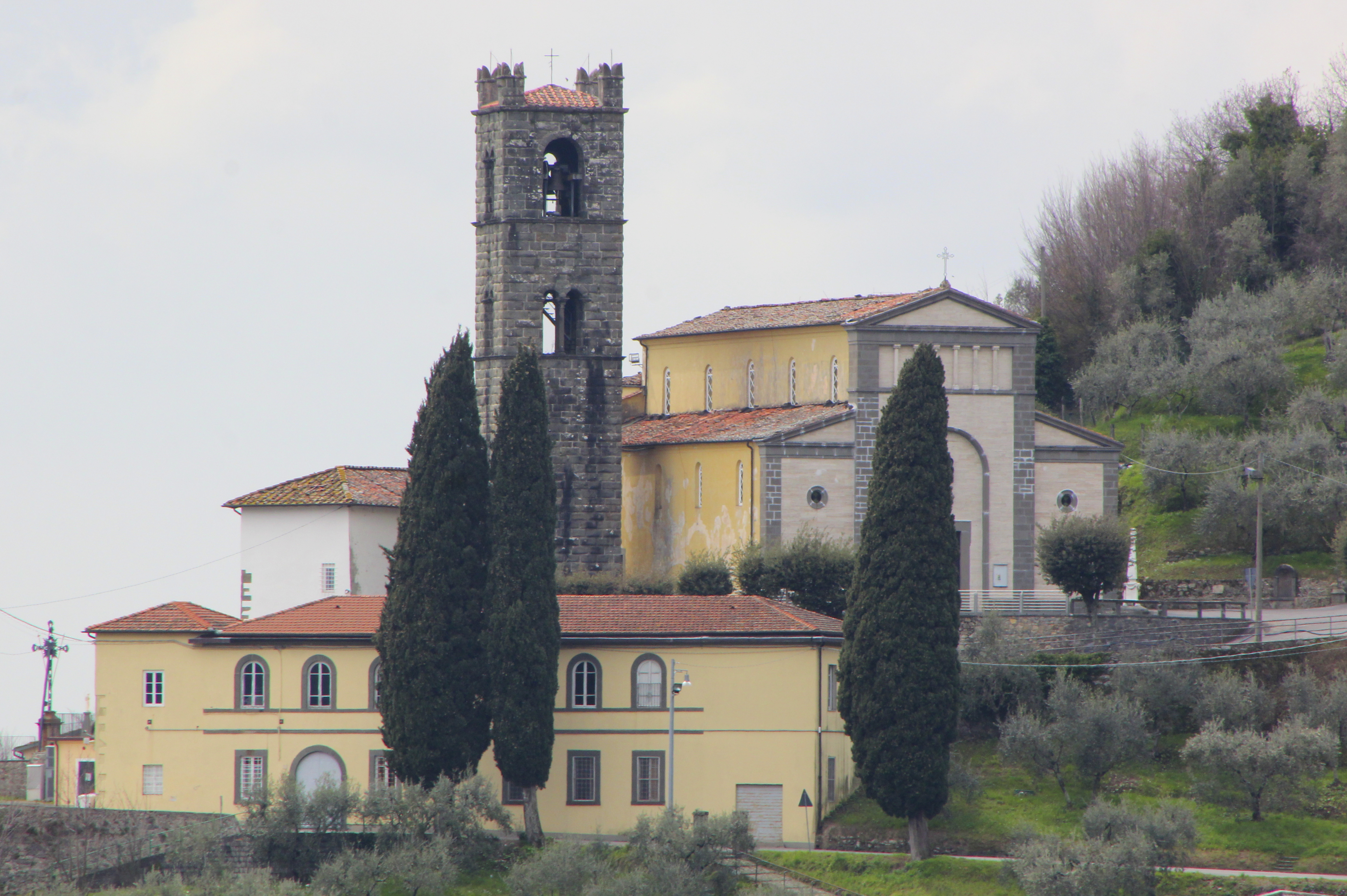 Church San Michele Arcangelo, Matraia, hamlet of Capannori, Province of Lucca, Tuscany, Italy